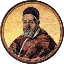 Portrait of Pope Urban VIII in the Basilica of Saint Paul Outside the Walls, Rome